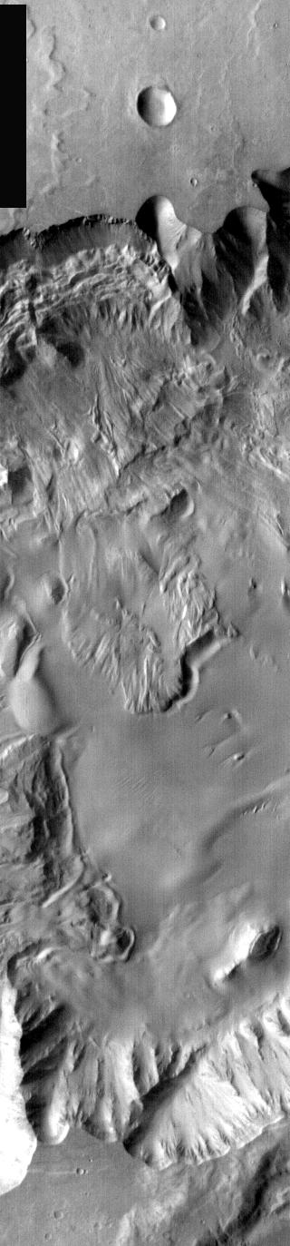 This is a daytime IR image of a chaos region within Xanthe Terra. As with earlier images, the landslide in this image is caused by the failure of steep slopes releasing material to form the landslide deposit.